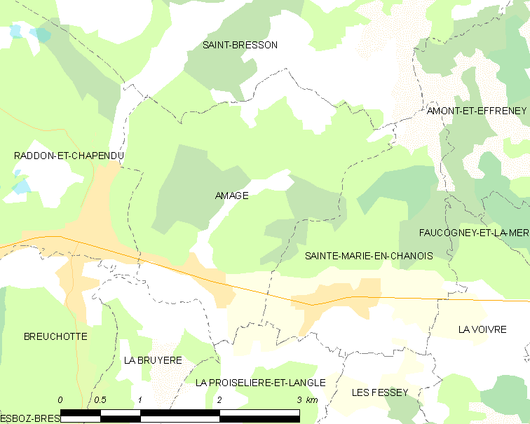 Map of French municipality